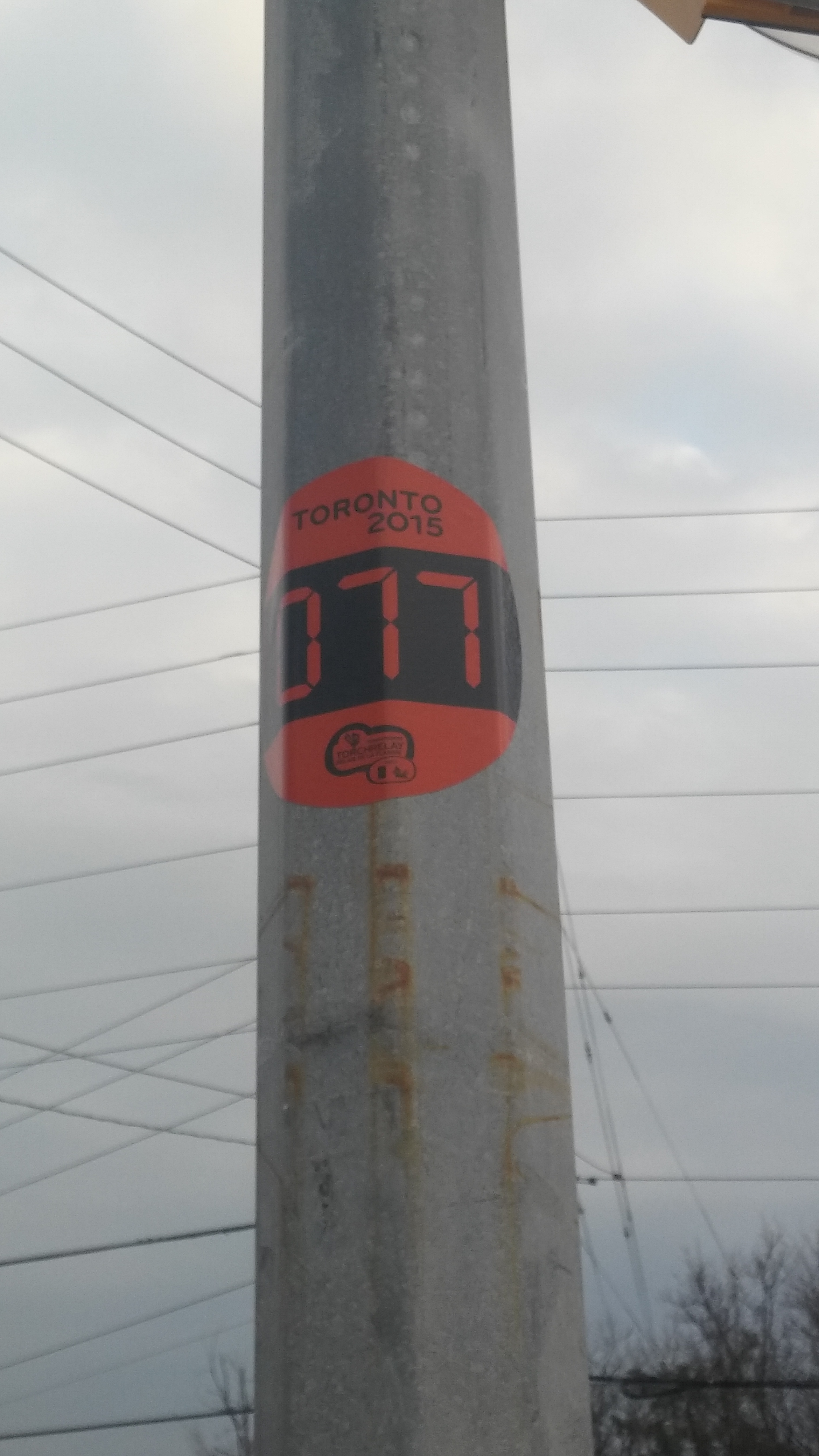 One of the many 2015 Pan American Games torch relay route marker